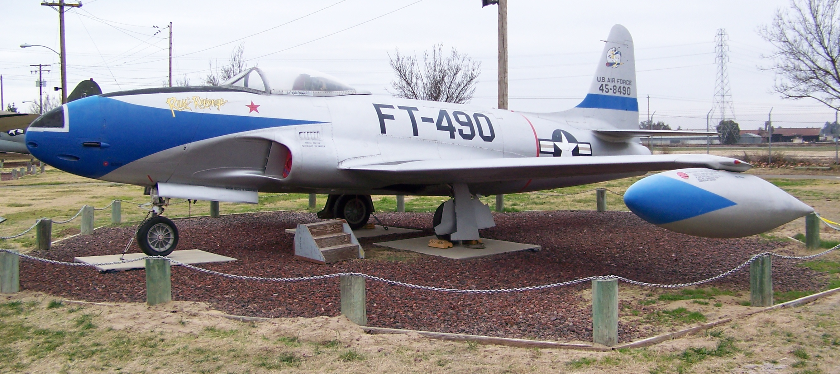 A Lockheed P-80B (F-80B) Shooting Star on display at the Castle Air Museum in Atwater, California.